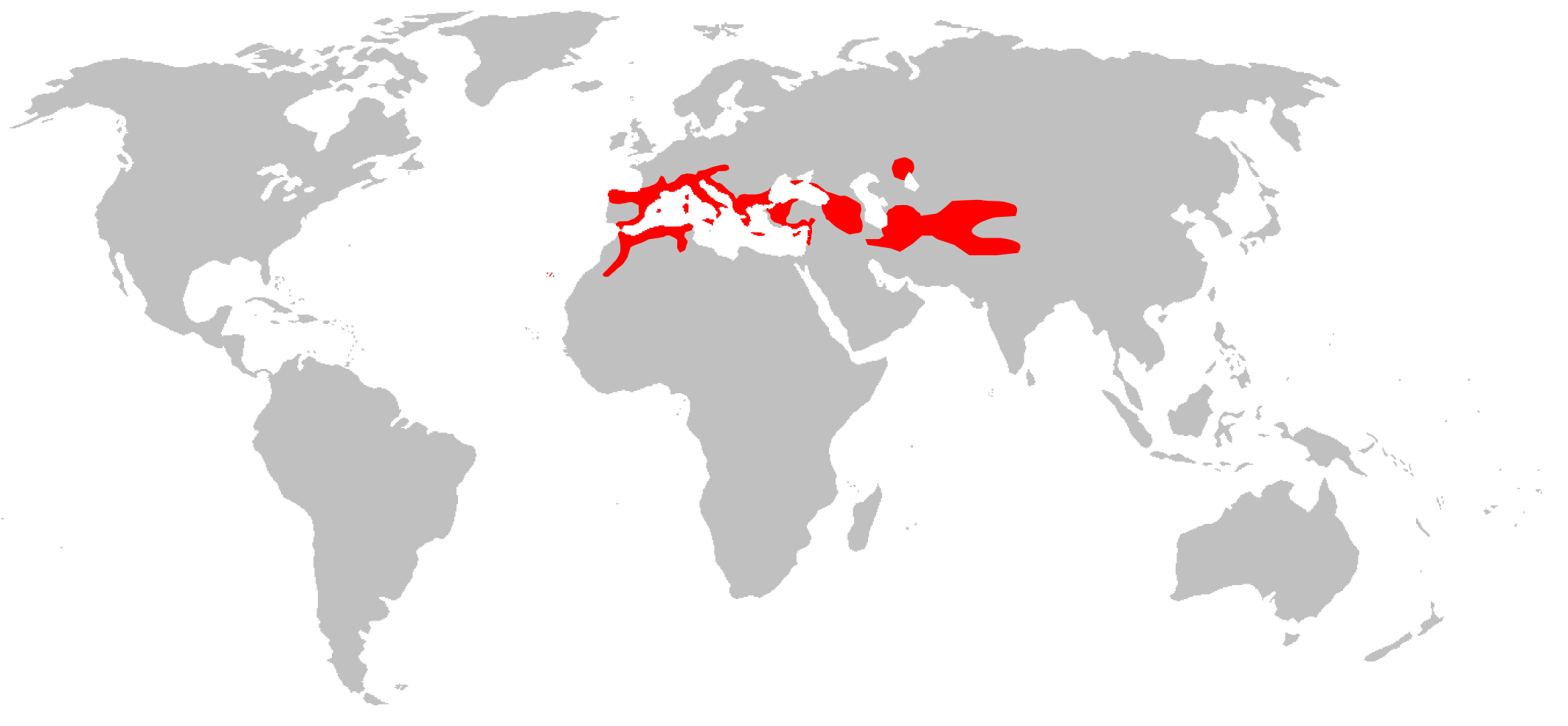 Hypsugo savii range map.